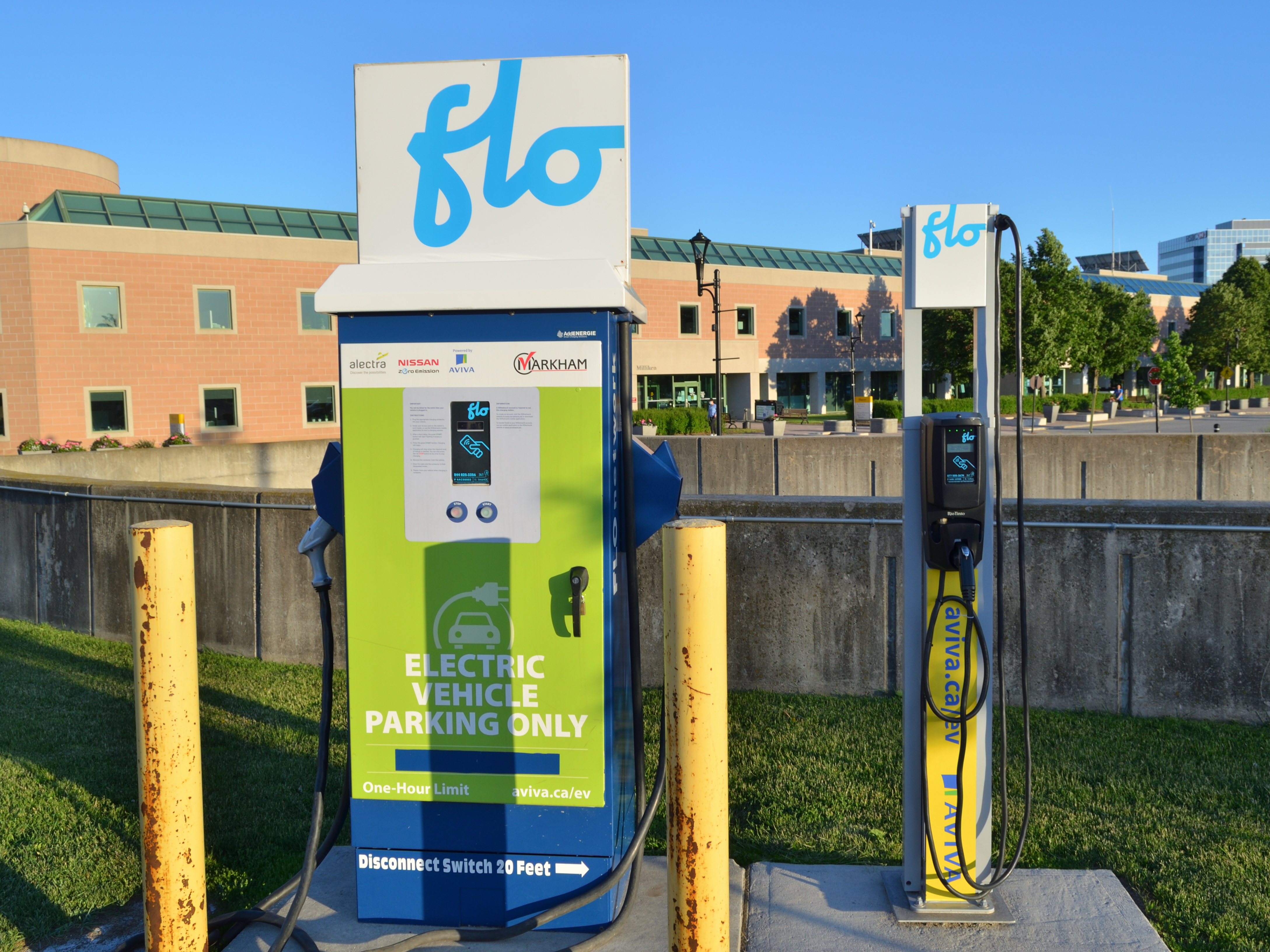 FLO charging station in Markham